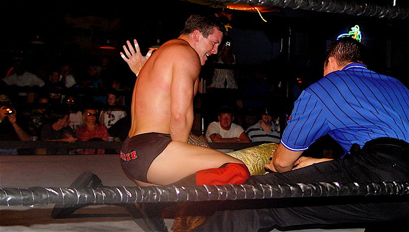 Ted DiBiase Jr. at FCW wrestling event in Ft. Myers Florida. Photo by Rob Beukema.